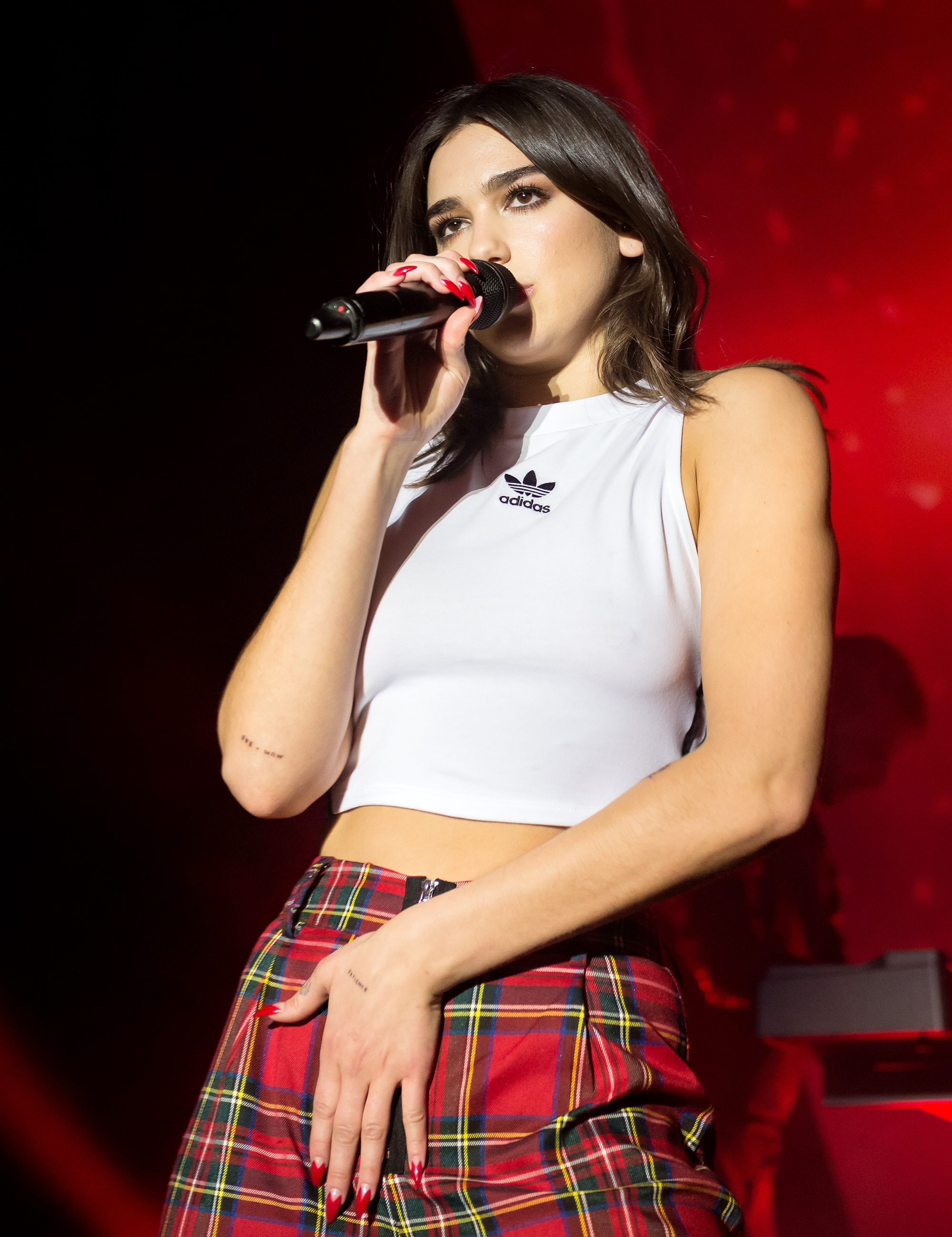 Dua Lipa performing live at The Palladium in Hollywood, Los Angeles, California, on Thursday, February 8, 2018. The first of two sold out nights at this venue on Dua's "Self-Titled" Tour. Shot for Live Nation's Ones To Watch.